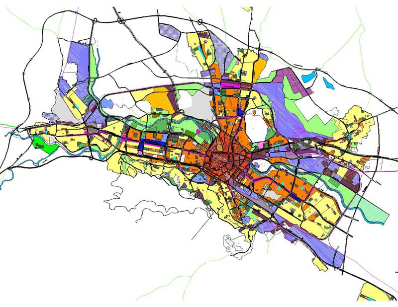 The graphical scheme of the General urban plan for the city of Skopje, North Macedonia. The graphical scheme contains different zones which are designated with different colors.